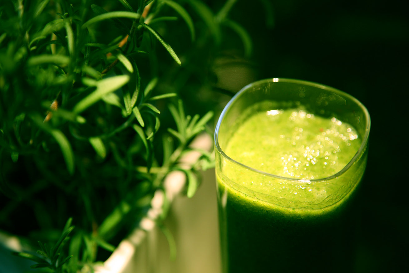 Delicious green smoothie: banana, pear, celery, spinach